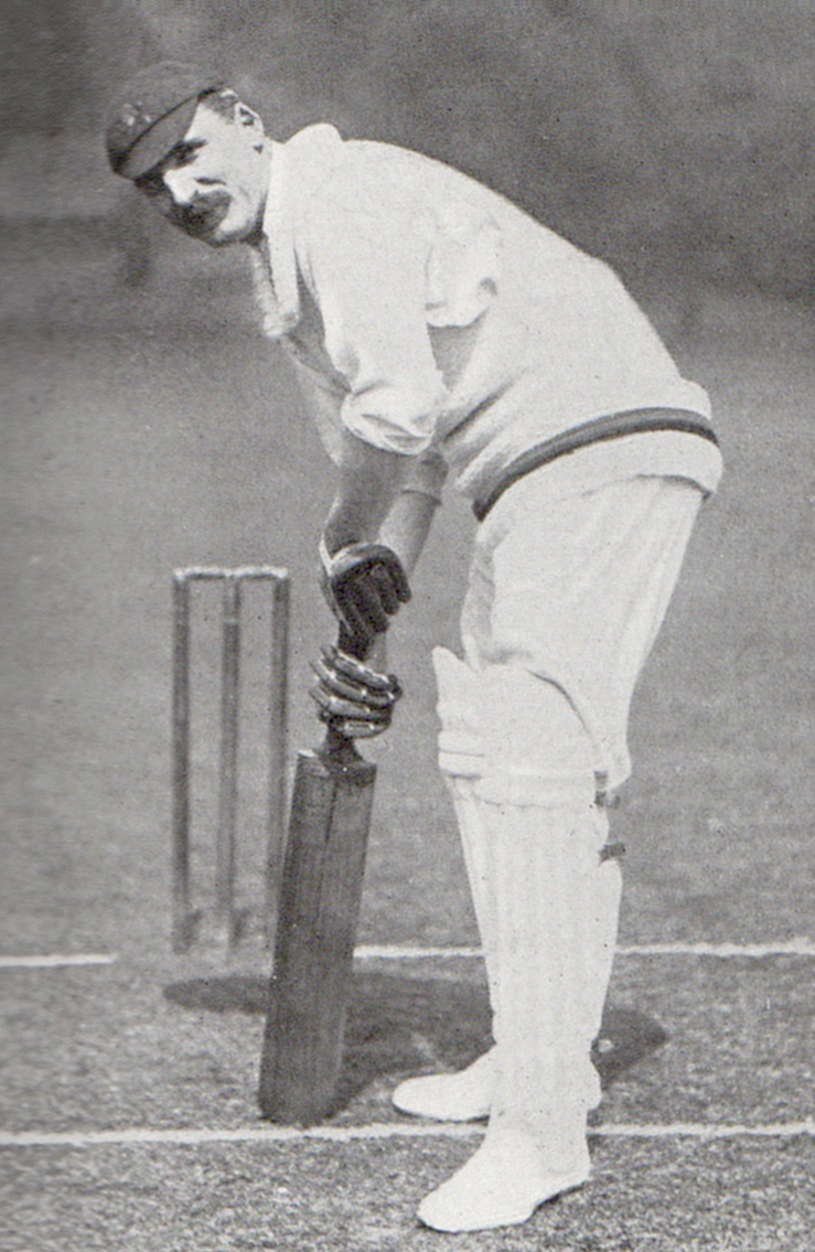 Archie MacLaren in his batting stance, photographed by George Beldham.